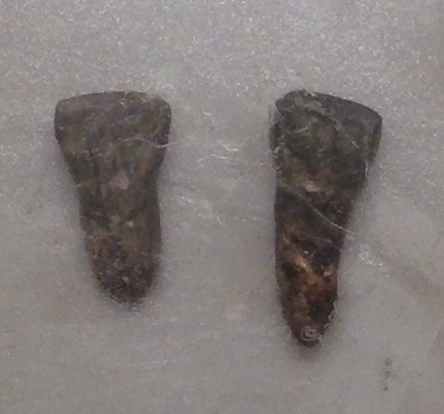 Casts of teeth of Yuanmou Man (Homo erectus yuanmouensis), found in China. The casts are owned by Shanghai Natural History Museum.